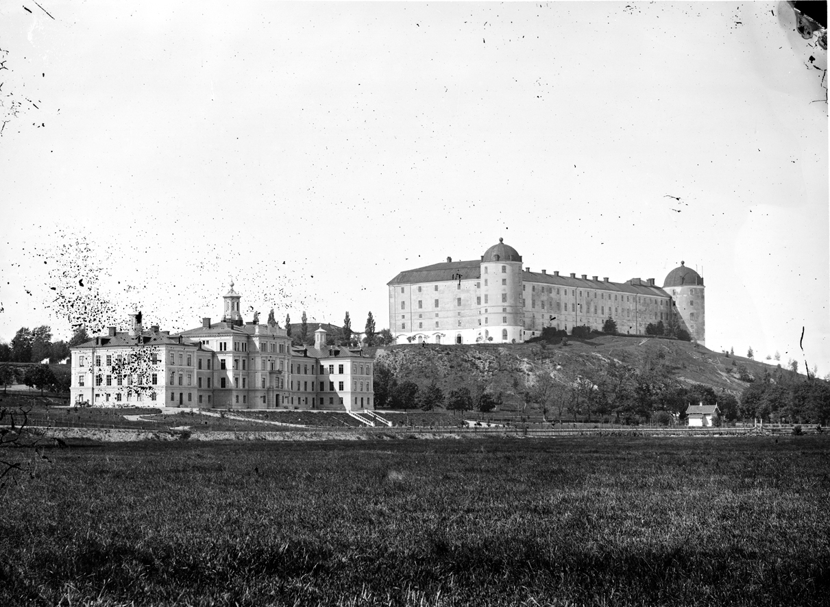 Akademiska sjukhuset och Uppsala slott från söder på 1860-talet, Uppsala. The Academic Hospital and Uppsala Castle, Uppsala, Sweden 1860 - 1870. Upplandsmuseet: OA017 Flickr data on 2011-08-24: Tags: Uppsala, Uppland, UppsalaCastle, Uppsalaslott, Akademiskasjukhuset, Castle, Hospital, Sweden License: CC BY 2.0 User: Upplandsmuseet Upplandsmuseet Länsmuseum för Uppsala län